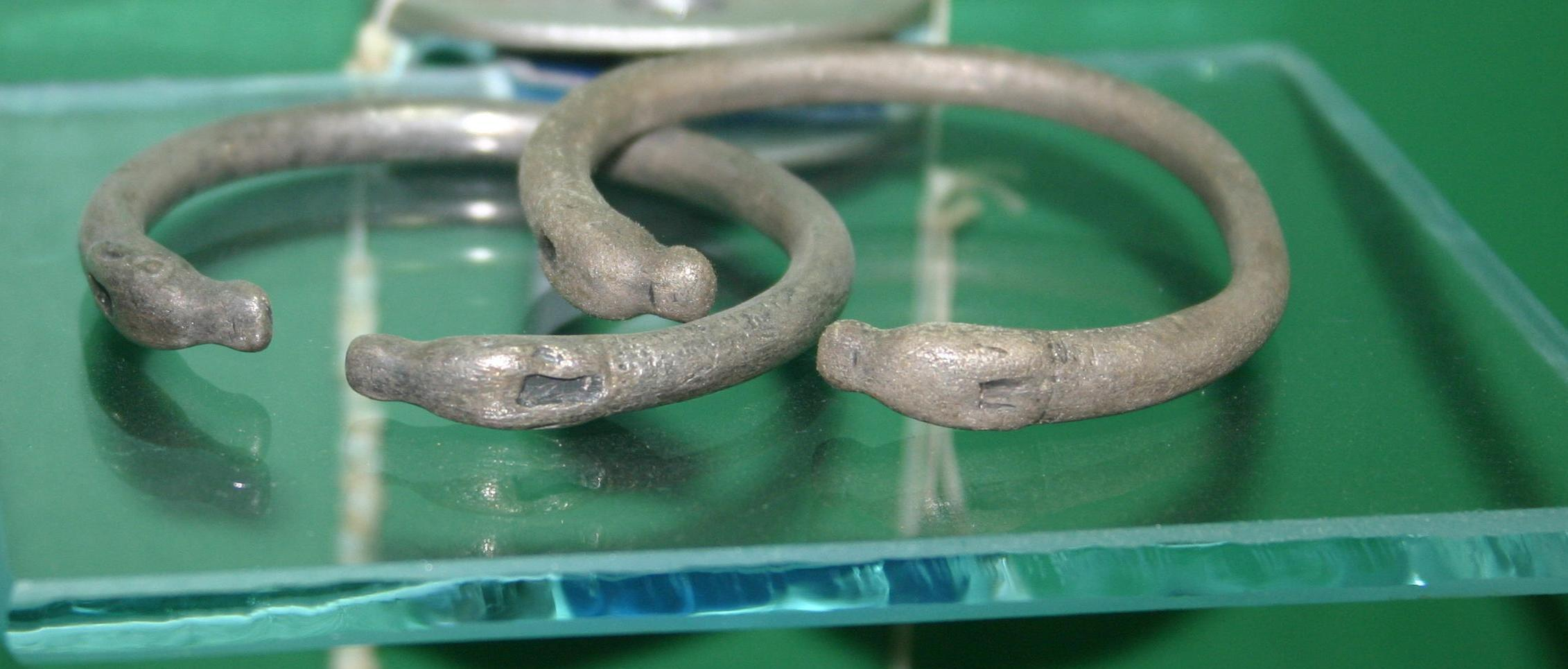 With thanks to the Batumi museum of Archaeology for allowing photography